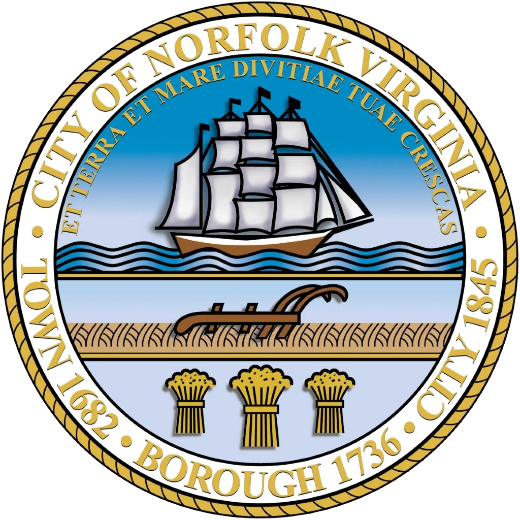 Seal of Norfolk, Virginia, adopted in 1913 Official website